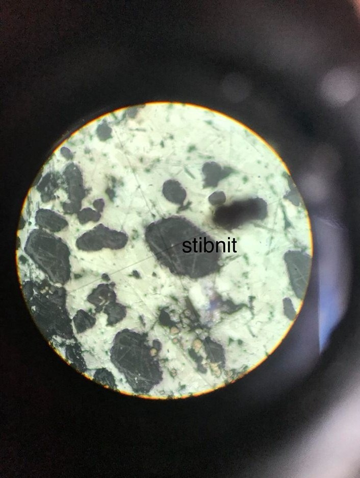 Microscopic image of Stibnite